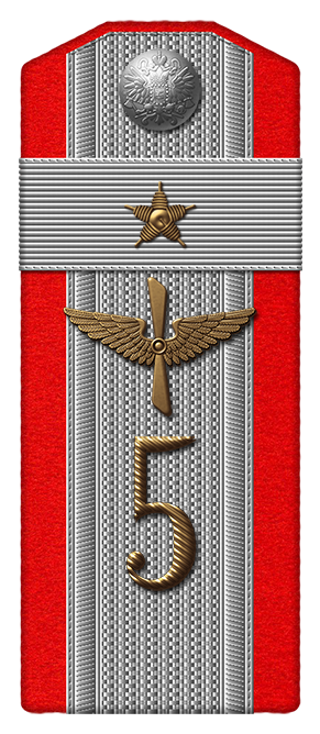 Rank insignia of the Imperial Russian Army, Air Force 1914-1917: «Praposhchik deputy» / on army «Feldwebel assignment» – 5th Aviation company (in Bryansk).